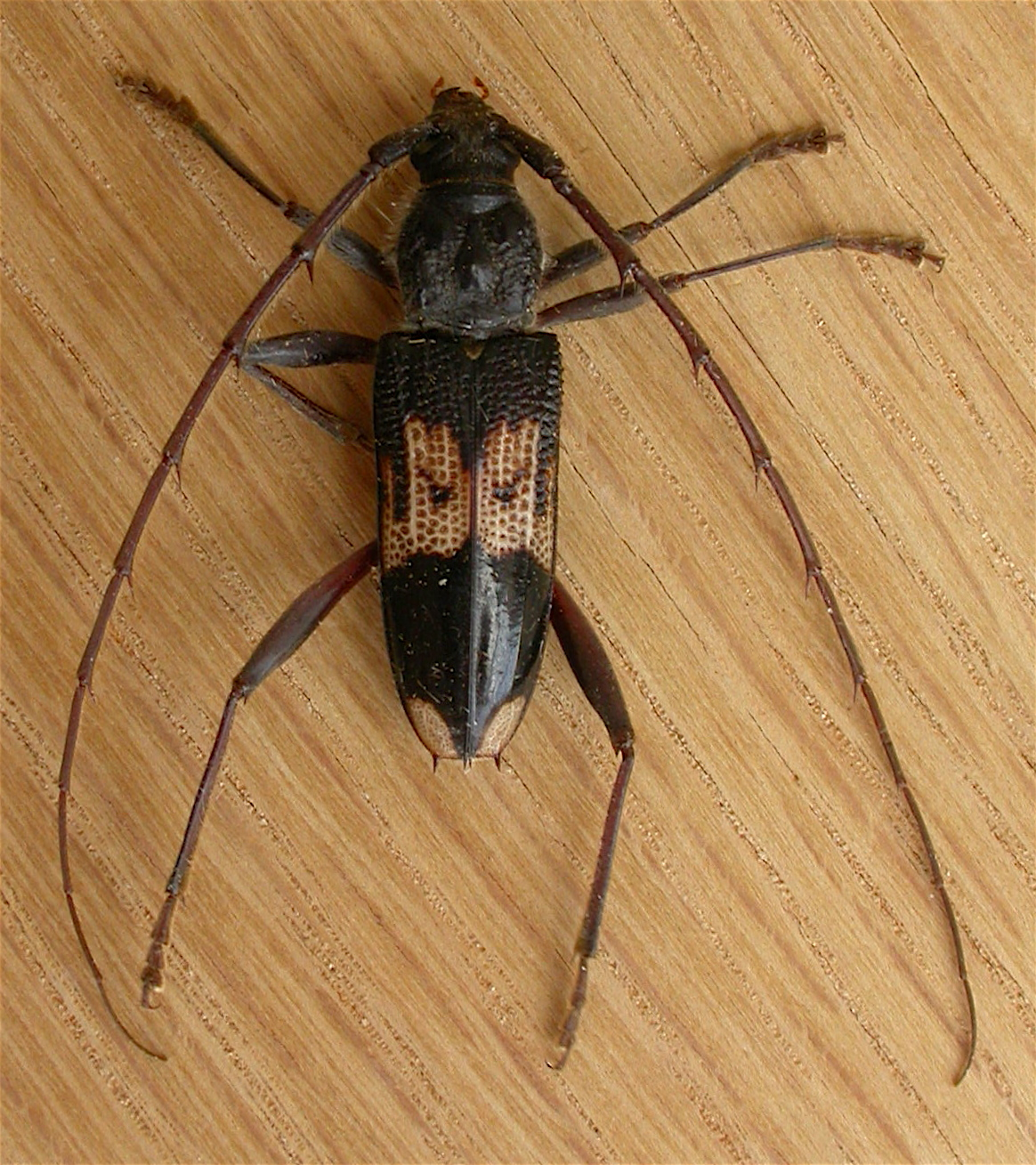 Phoracantha semipunctata (Fabricius), to MV light, Aranda, ACT, 31 October/1 November 2008